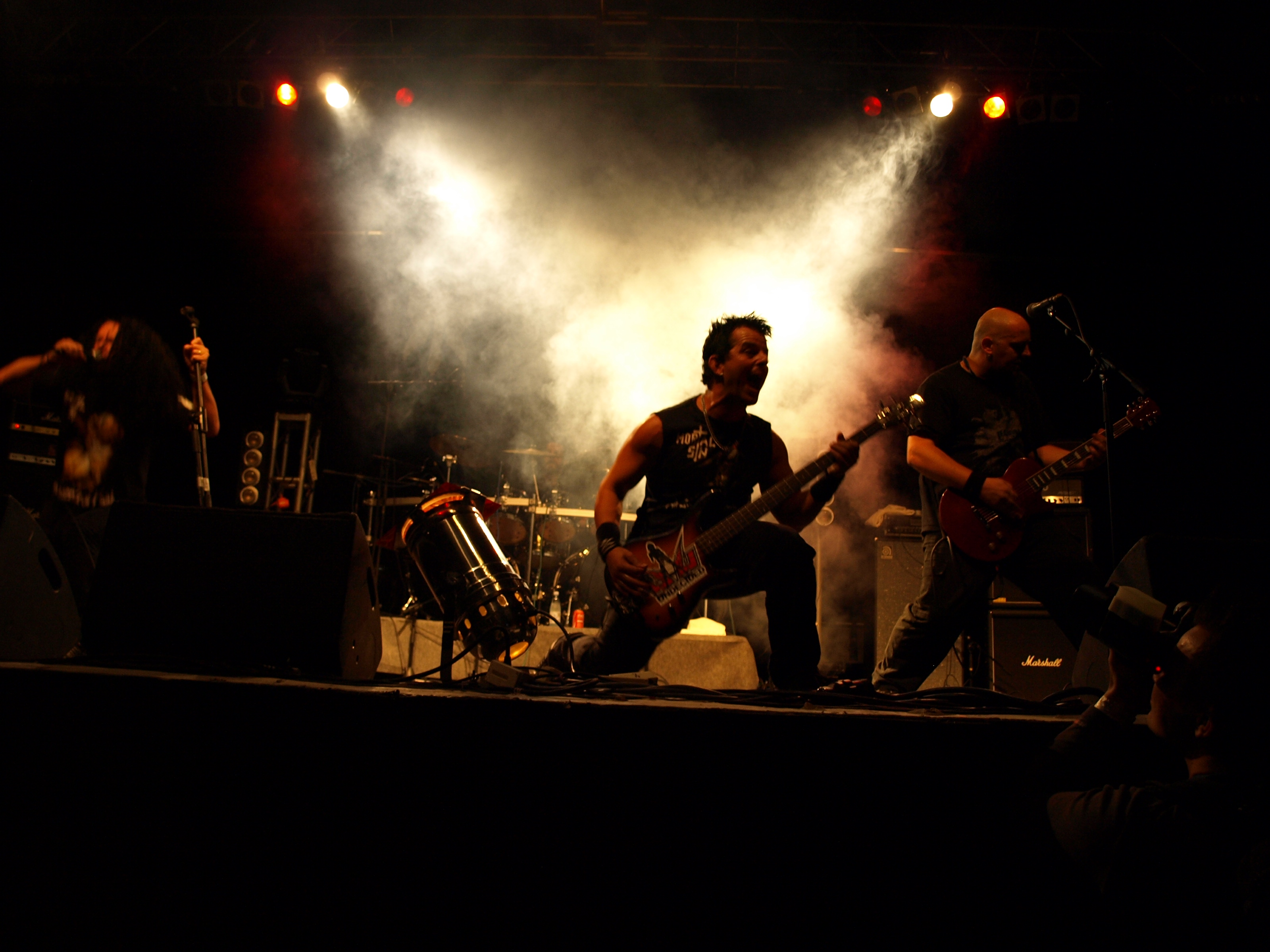 Australian Thrash metal band Mortal Sin live at Jalometalli 2008 in Oulu.